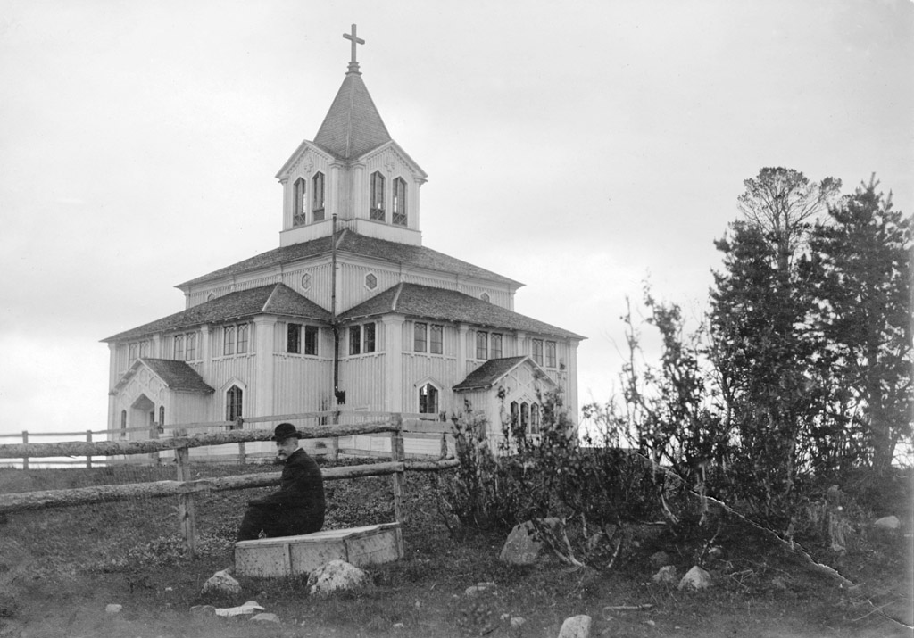 Man outside Gällivare Church from 1882.